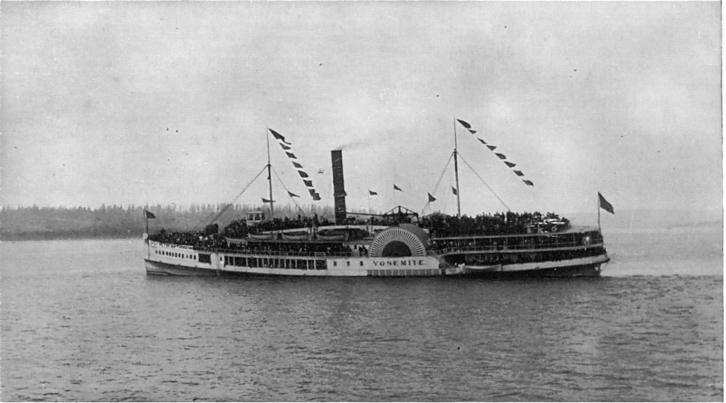 Sidewheel steamship Yosemite embarking almost the entire faculty and student body of the University of Washington on an excursion (in 1908) to view the arrival in Puget Sound of the Great White Fleet. The vessel is clearly overloaded and taking on a noticeable heel. Dangerous practices like this had already resulted in the General Slocum disaster in 1904, which occurred in New York, on an excursion sidewheel steamer built of wood, as was the Yosemite. This was not however the incident which led to the loss of the vessel.